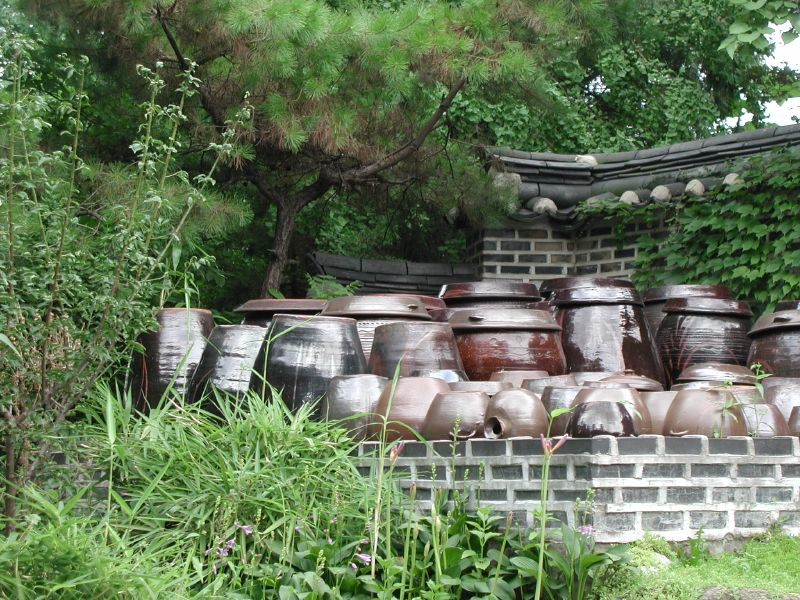 Pots for storing kimchi, gochujang, dwenjang as well as other pickled banchan at a Hanok, Korean traditional house.